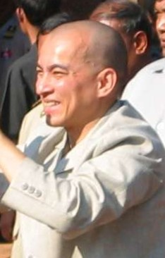 King Norodom Sihamoni of Cambodia